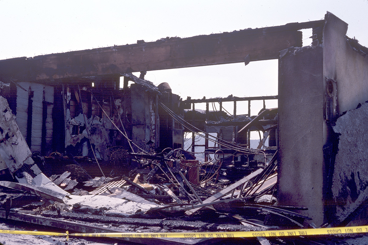 Glendale home destroyed by arson fire started by Glendale Fire Captain John Orr in 1990